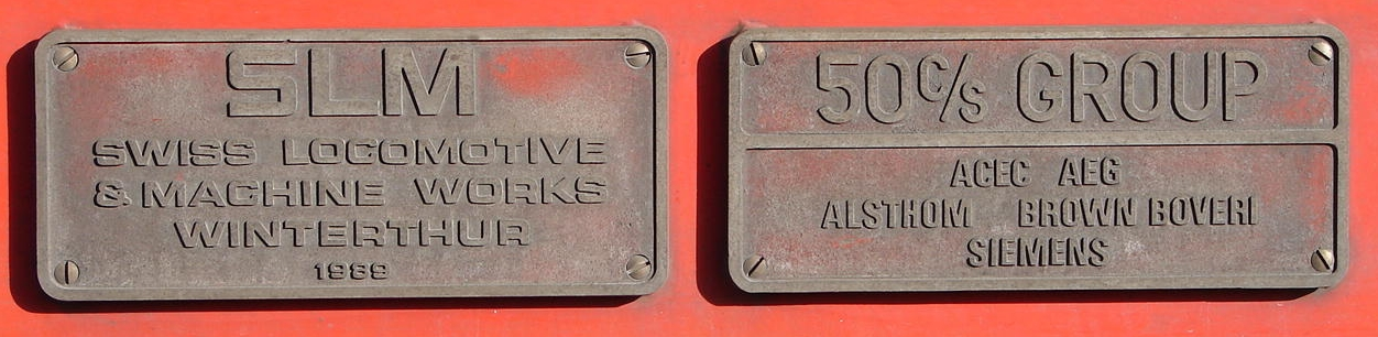 Spoornet Class 14E 14-001 builders' platesBuilder's Number: HST 16657-1-3/1988Location: Stikland, Cape Town